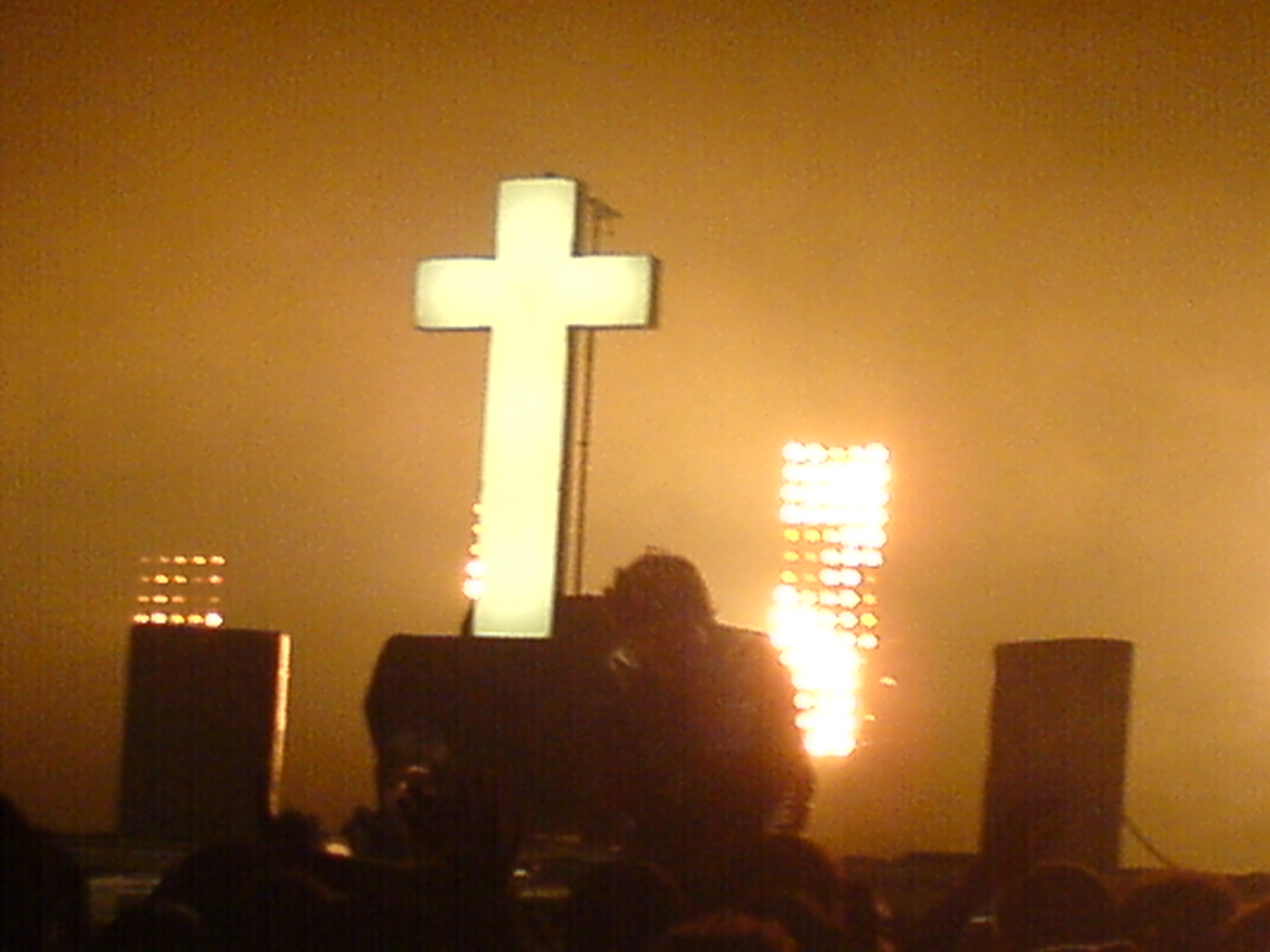 The group Justice playing at the Transmusicales 2006